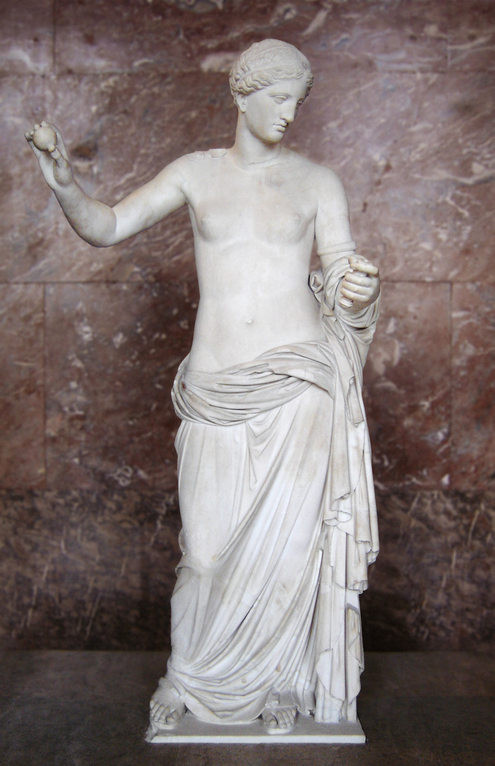 Statue of Aphrodite, known as the Venus of Arles. Hymettus marble, Roman artwork, imperial period (end of the 1st century BC), might be a copy of the Aphrodite of Thespiae by Praxiteles. The apple and the mirror were added during the 17th century. Found in the ancient theatre of Arles, France.